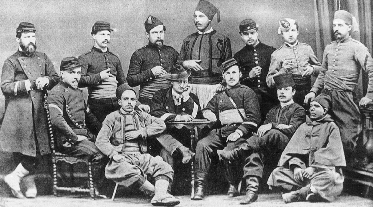 group of men from Bourbaki's army in Switzerland